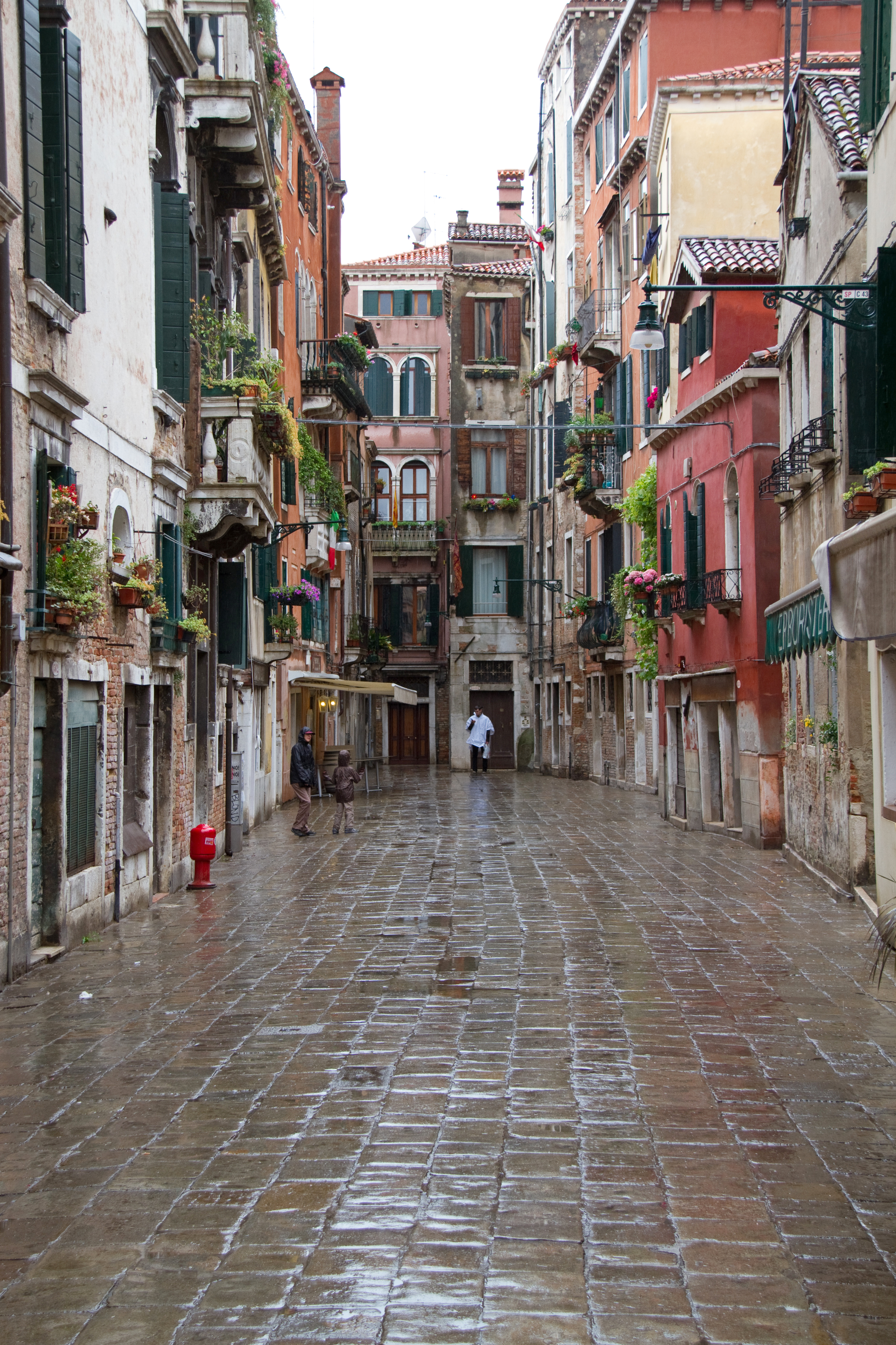 A Wet Day in Venice 2